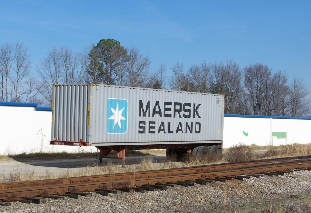 Maersk 53 container, Chesapeake, VA.